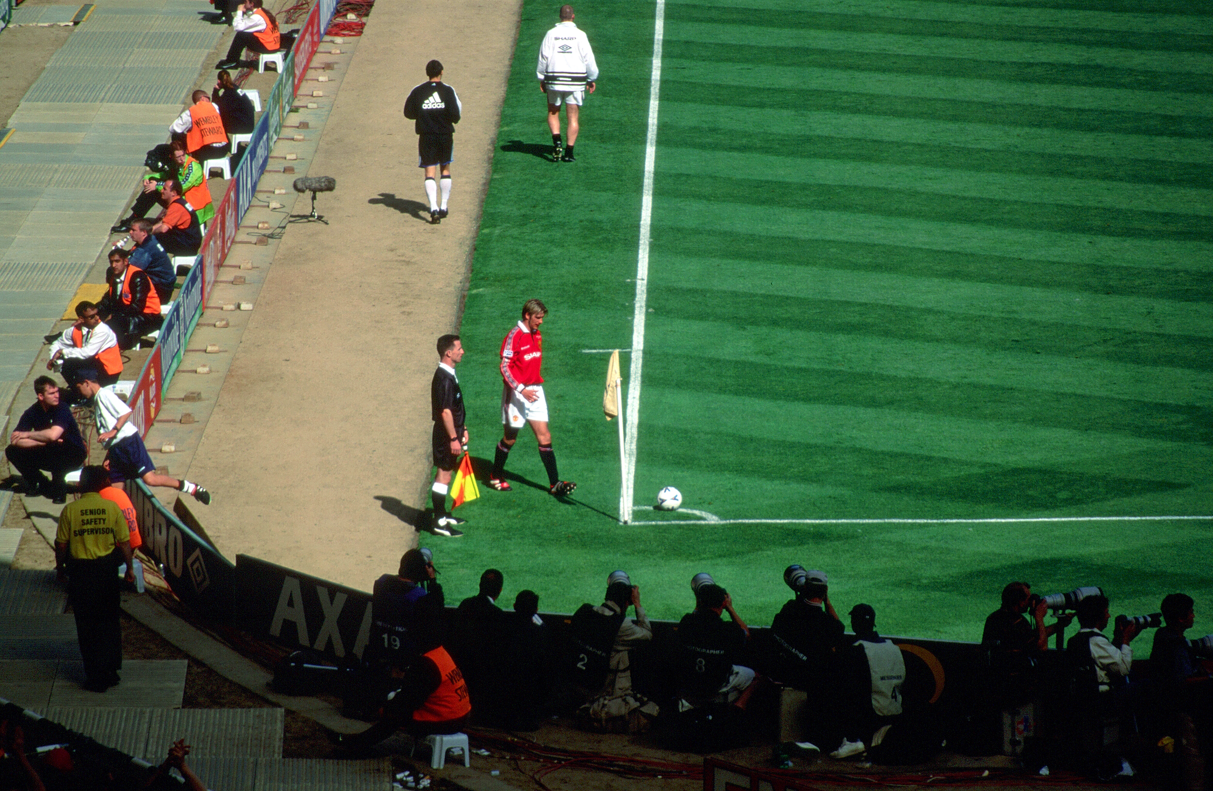 David Beckham prepares to take a corner kick for Manchester United in the 1999 FA Cup Final against Newcastle United at Wembley Stadium on 22 May 1999.